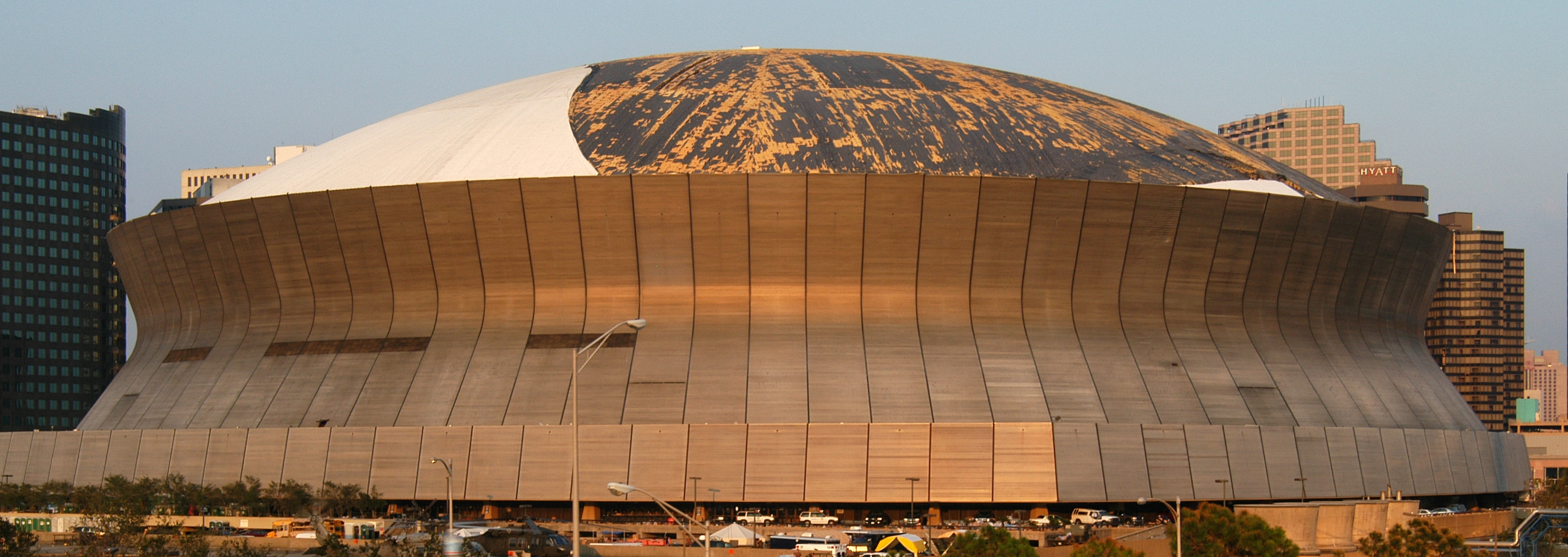 Photograph of the roof damage to the Louisiana Superdome following Hurricane Katrina. The original FEMA photo has been cropped, levels aligned, sharpened.